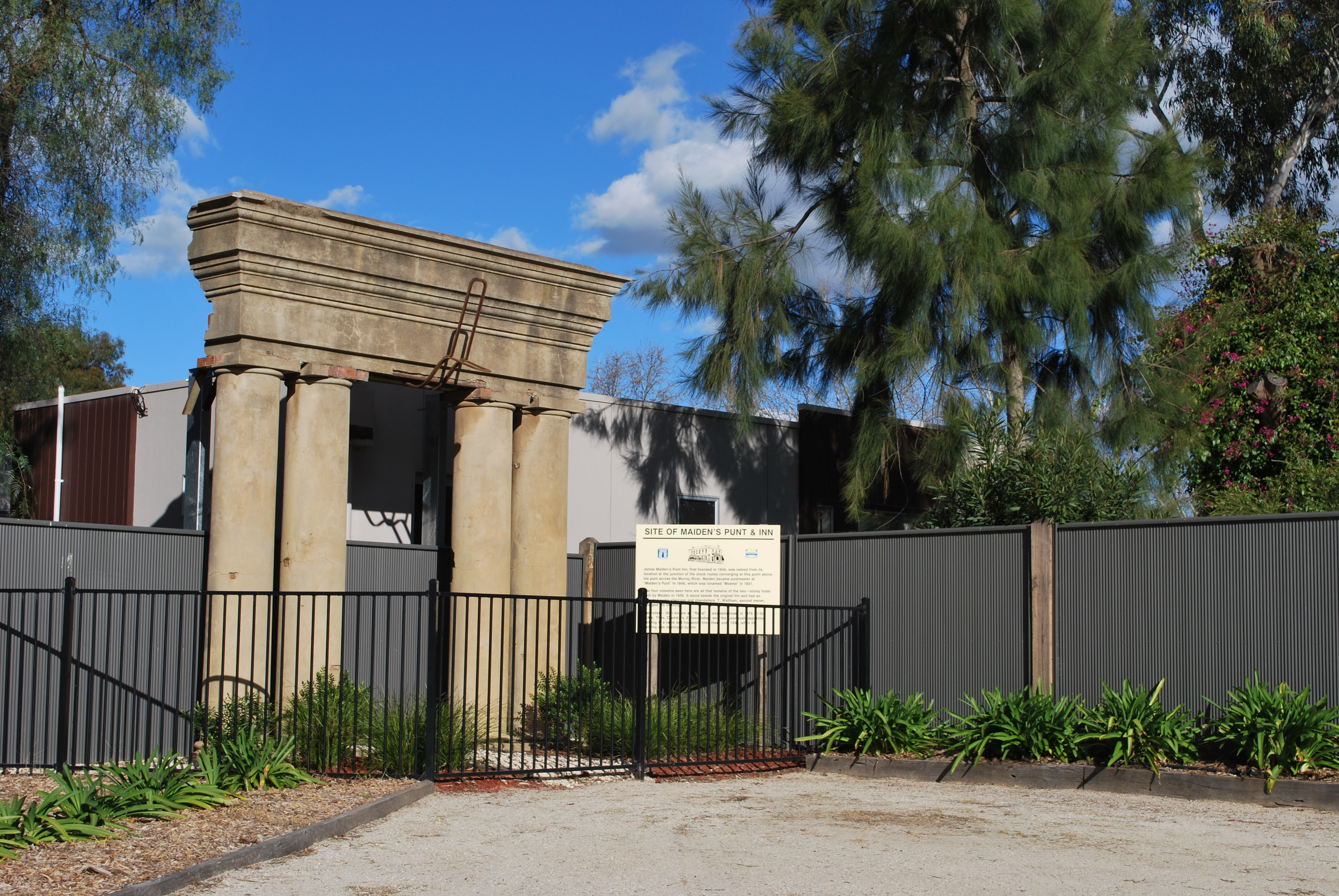 Memorial marking the site of the former Maiden's punt and inn at Moama, New South Wales